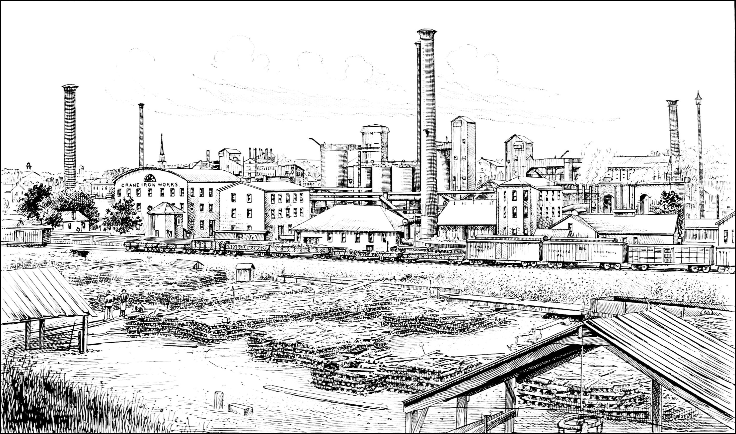 Iron works at Catasaqua